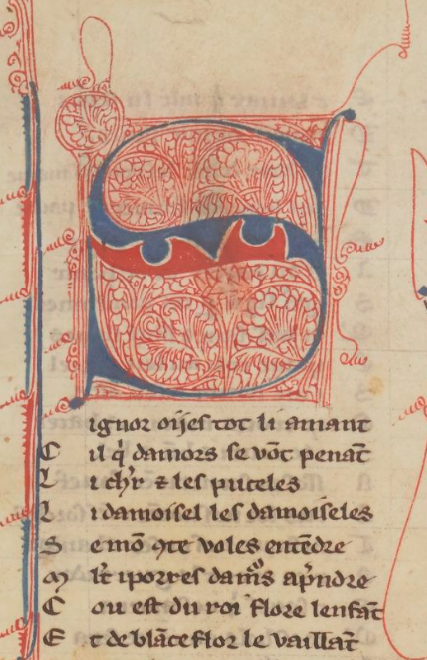 Extract from Floire et Blancheflor, ms. 375 fr. of the BnF, fol. 247v, col. 2. Essentially a version of that is in color, cropped, and higher resolution. Limited to the first 8 lines of the poem rather than the whole first column. Incipit is a single line at the end of the first column